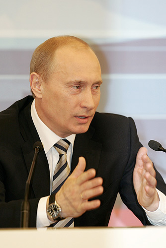 THE KREMLIN, MOSCOW. The President's annual press conference for the Russian and foreign media.